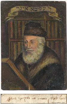 Portrait of Rabbi Akiva Eger of Posen (1761-1837); on the back is an inscription by its original owner, Rabbi Yoseph Eger of Halberstadt, whose father (and predecessor in the rabbinate of Halberstadt), also called Akiva, was a first cousin of the subject. R Yoseph died in 1854; therefore the portrait must have been painted before then. It is now in the collection of the Chabad Library.